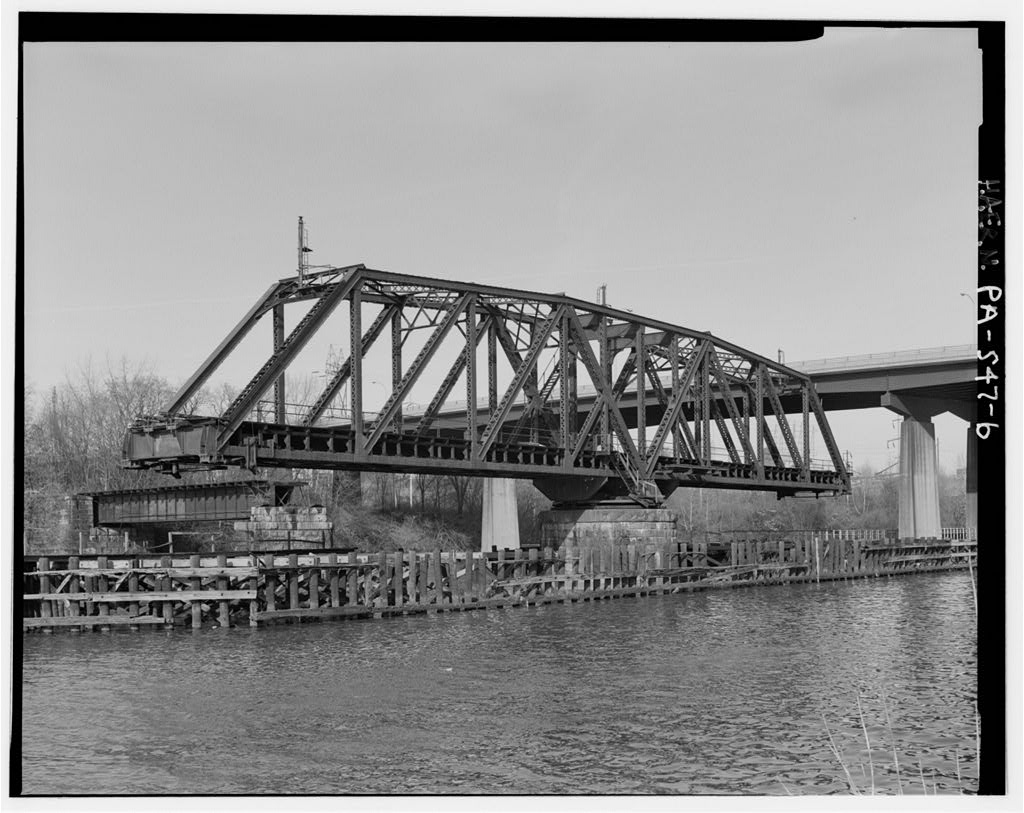 This 1999 photo looks northwest across the Schuylkill River to the Philadelphia, Wilmington & Baltimore Railroad, Bridge No. 1 and, just behind and above it, the Grays Ferry Avenue Bridge in Philadelphia, Pennsylvania.